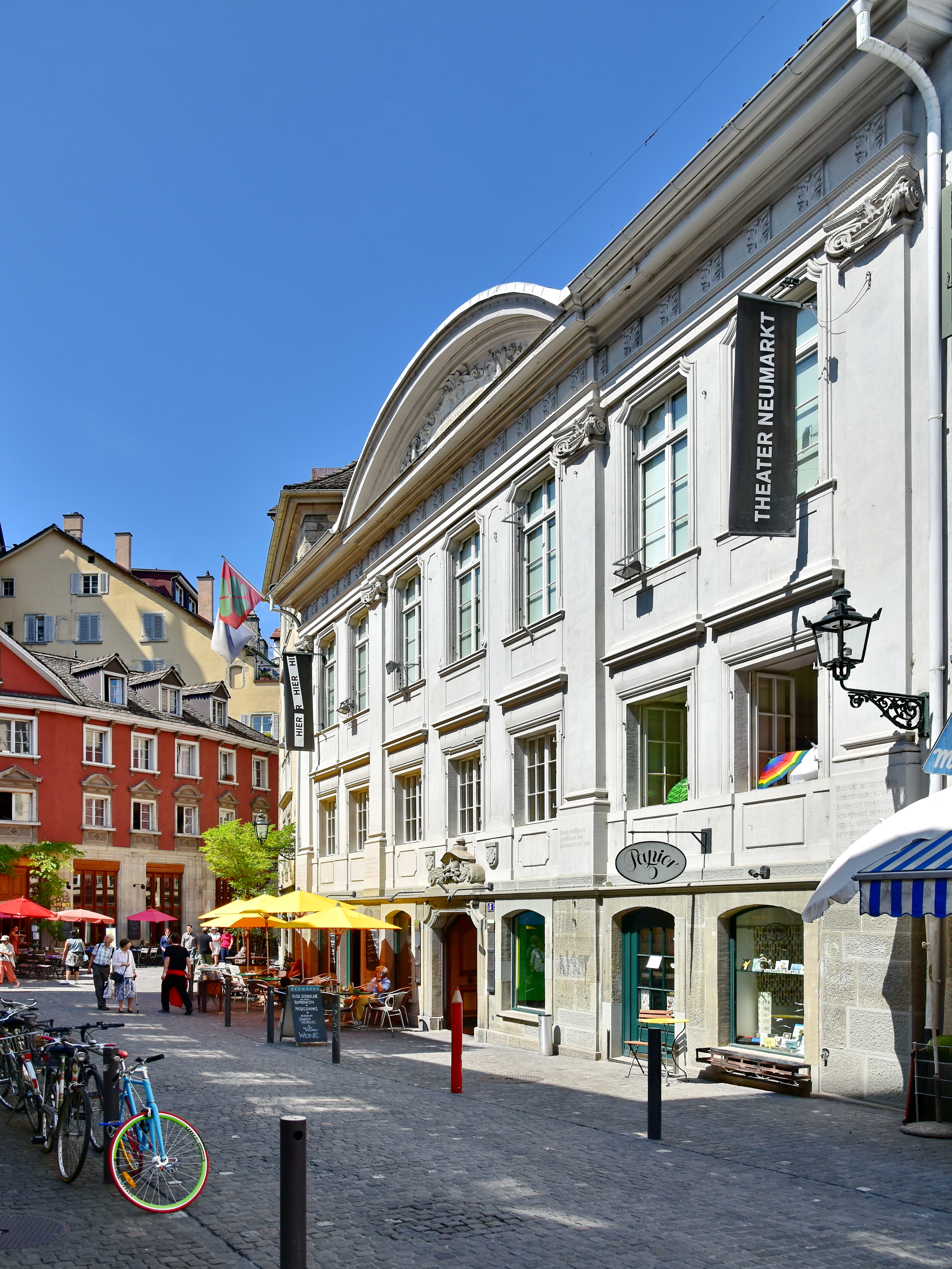 Theater to the right, Neumarkt in Zürich (Switzerland)